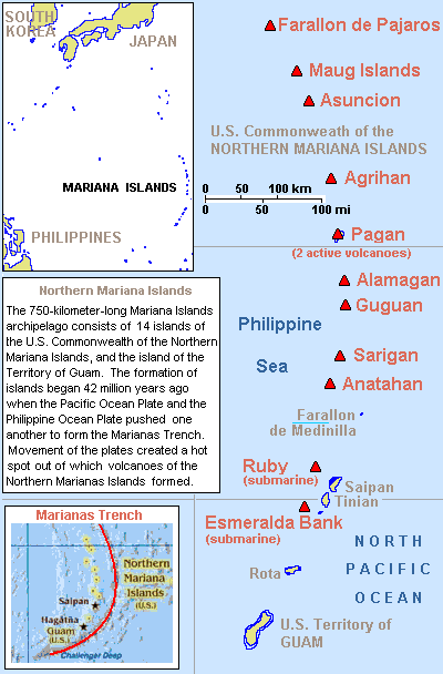 Map describing volcanoes of the Mariana Islands along the Marianas Trench (east of China and the Philippines).